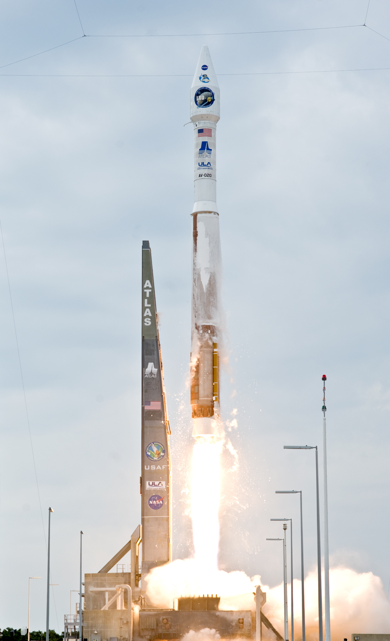 Trailing a column of fire, the Atlas V(401) carrying NASA's Lunar Reconnaissance Orbiter, or LRO, and NASA's Lunar Crater Observation and Sensing Satellite, known as LCROSS, hurtles off Launch Complex 41 at Cape Canaveral Air Force Station in Florida. LRO and LCROSS are the first missions in NASA's plan to return humans to the moon and begin establishing a lunar outpost by 2020. The LRO also includes seven instruments that will help NASA characterize the moon's surface: DIVINER, LAMP, LEND, LOLA , CRATER, Mini-RF and LROC. Launch was on-time at 21:32 UTC.